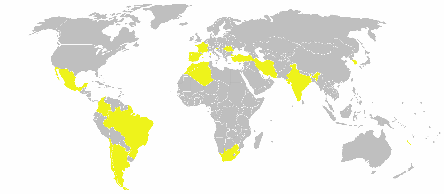 World locations of Renault factories